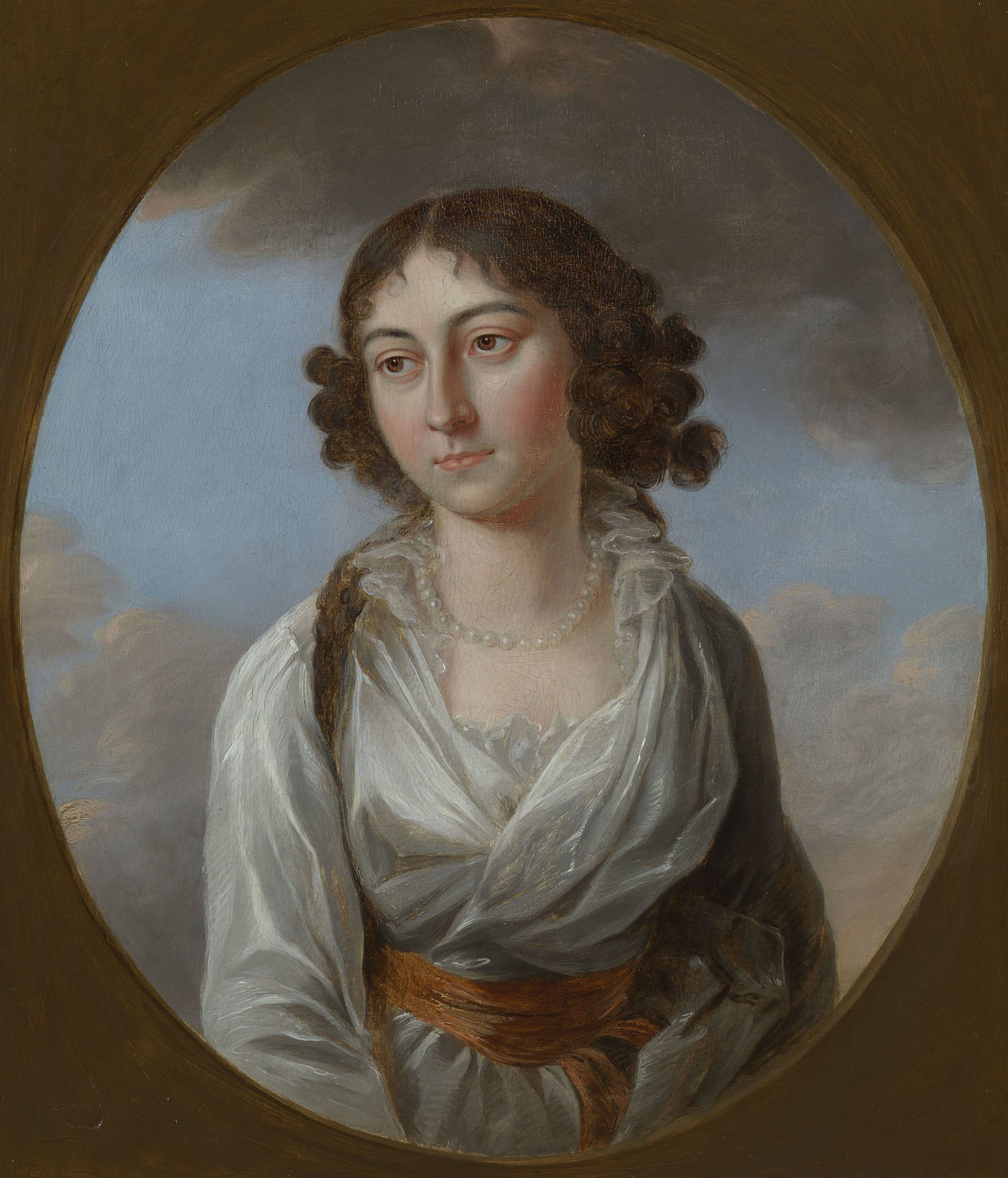 This portrait of Princess Sophia of Saxe-Coburg-Saalfeld is a copy after the pastel portrait by J.H. Schroeder of c.1795 which forms part of a set of Francis Anthony, Duke of Saxe-Coburg-Saalfeld, his Duchess and his children, at Schloss Callenburg, Coburg (exh. Coburg 1997, no. 1-19, repr.). Herbert Luther Smith was commissioned to make copies after the pastels for Queen Victoria.